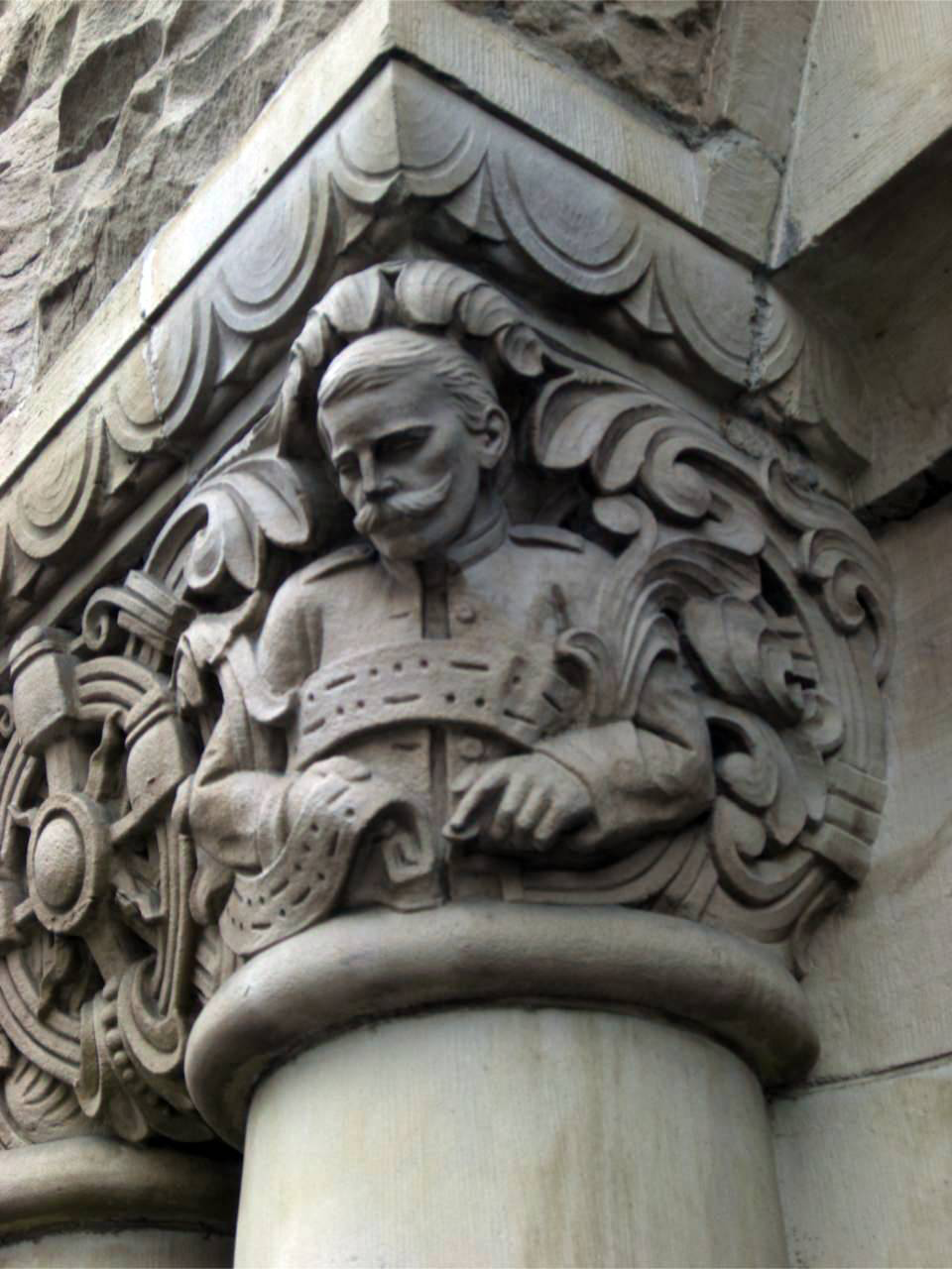 Capital from the arrivals façade, decorated with a telegraphist.